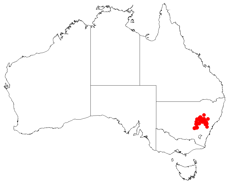 Macrozamia secunda occurrence data downloaded from Australasian Virtual Herbarium using